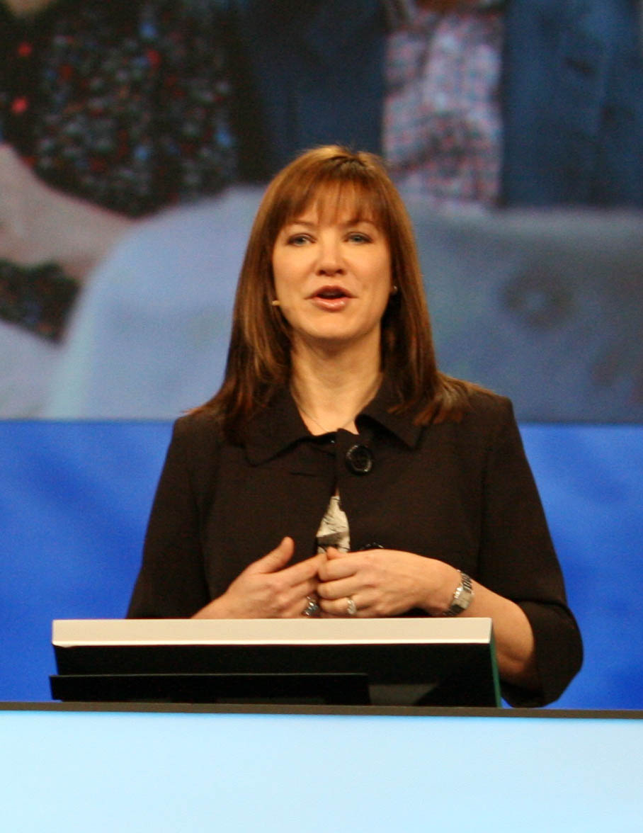 Julie Larson-Green (VP, Windows Experience) during the keynote, day 2 of PDC 2008